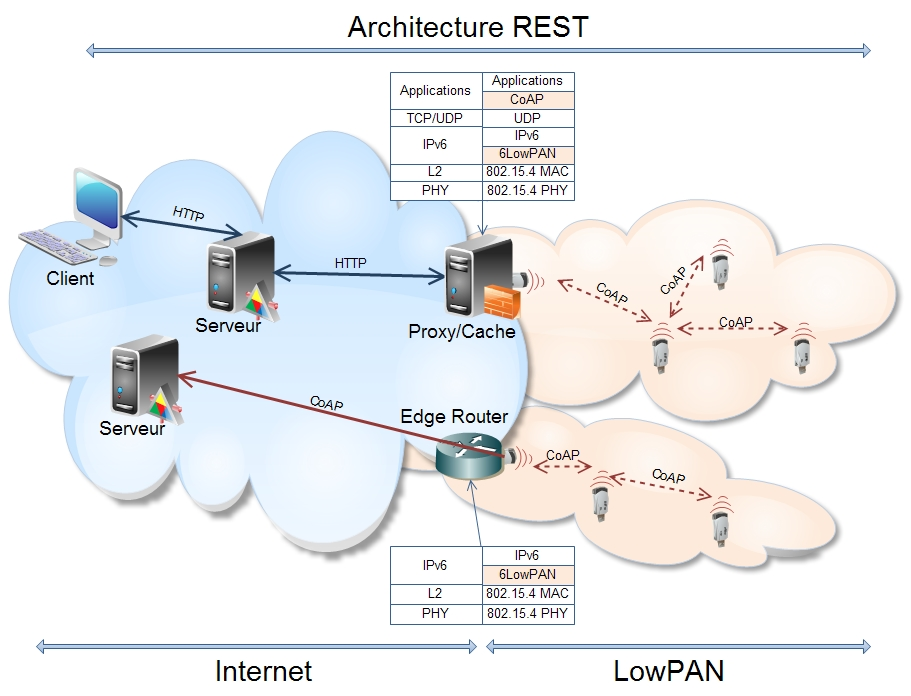 Rest architecture with CoAP version 3